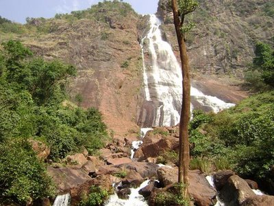 Khandadhar waterfall is located amidst the forest of Sundergarh. It lies about 104 from Rourkela via Bonaigarh which is 19 km from the waterfall.